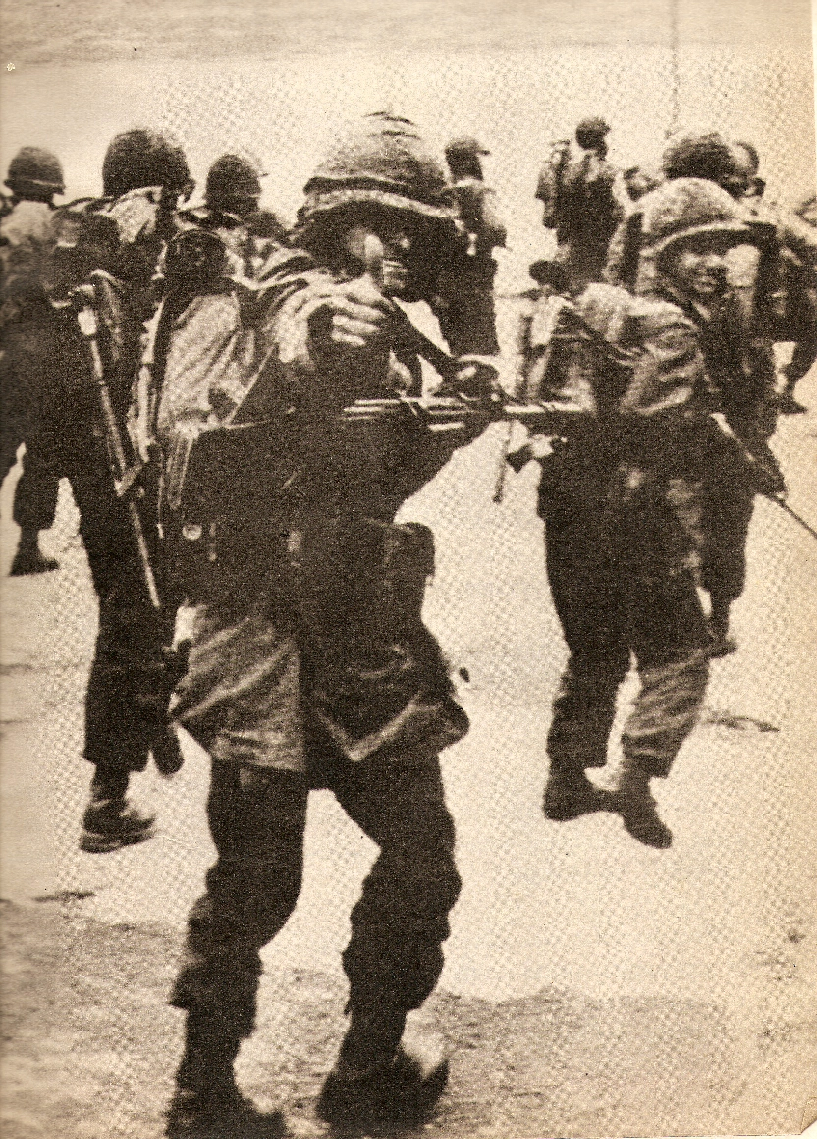 Argentine soldier making "thumbs up" in April 1982.